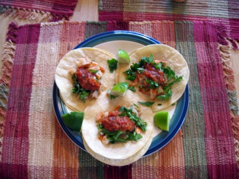 Authentic Tacos